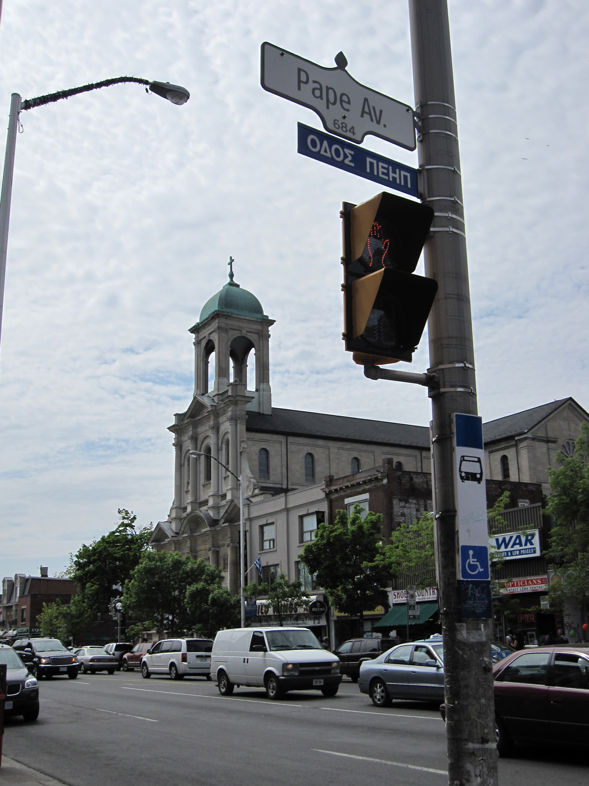 I am briefly passing through Greektown, also known as the Danforth. Lining Danforth Avenue (the eastern extension of Bloor Street), Greektown is the largest Greek community in North America. The street signs are in both English and Greek. Noting that "Avenue" is translated into Greek as "Οδοσ" (odos).